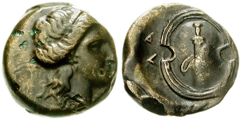 Salamis, 339-318 BC. Æ 14mm (3.32 g). Female head right with rolled hair / Boeotian shield (shield of Ajax) and sword in sheath.